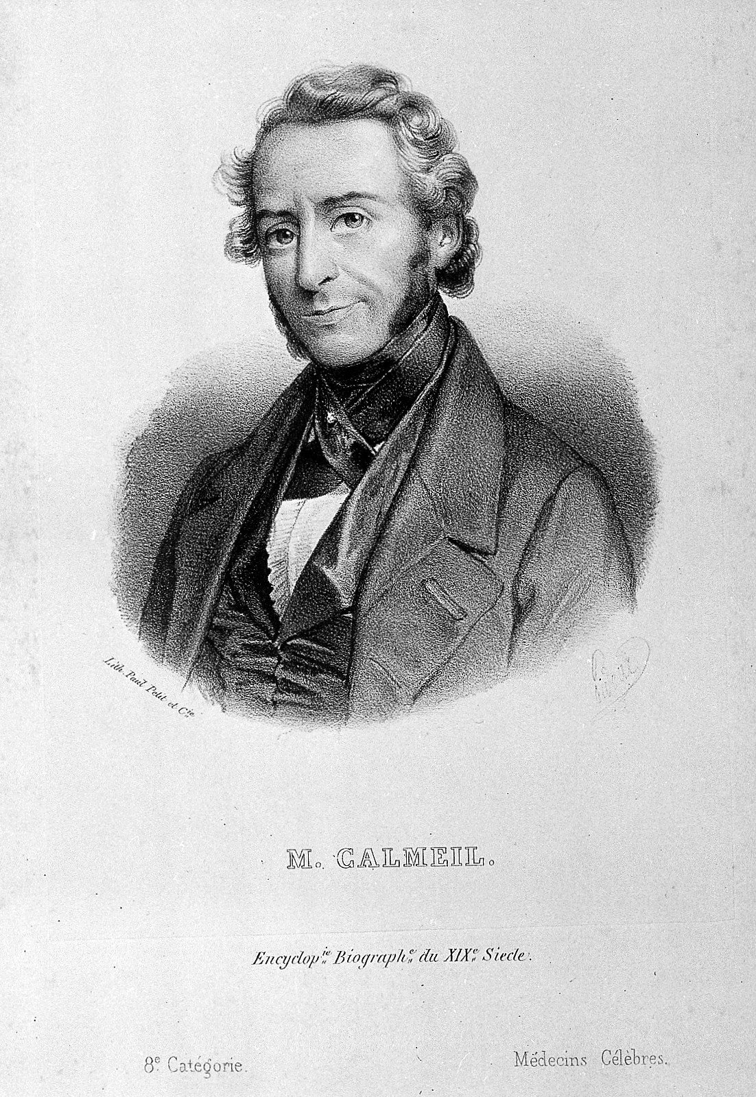 Portrait of J. L. Calmeil Wellcome Images Keywords: Juste Louis Calmeil; Pidoux